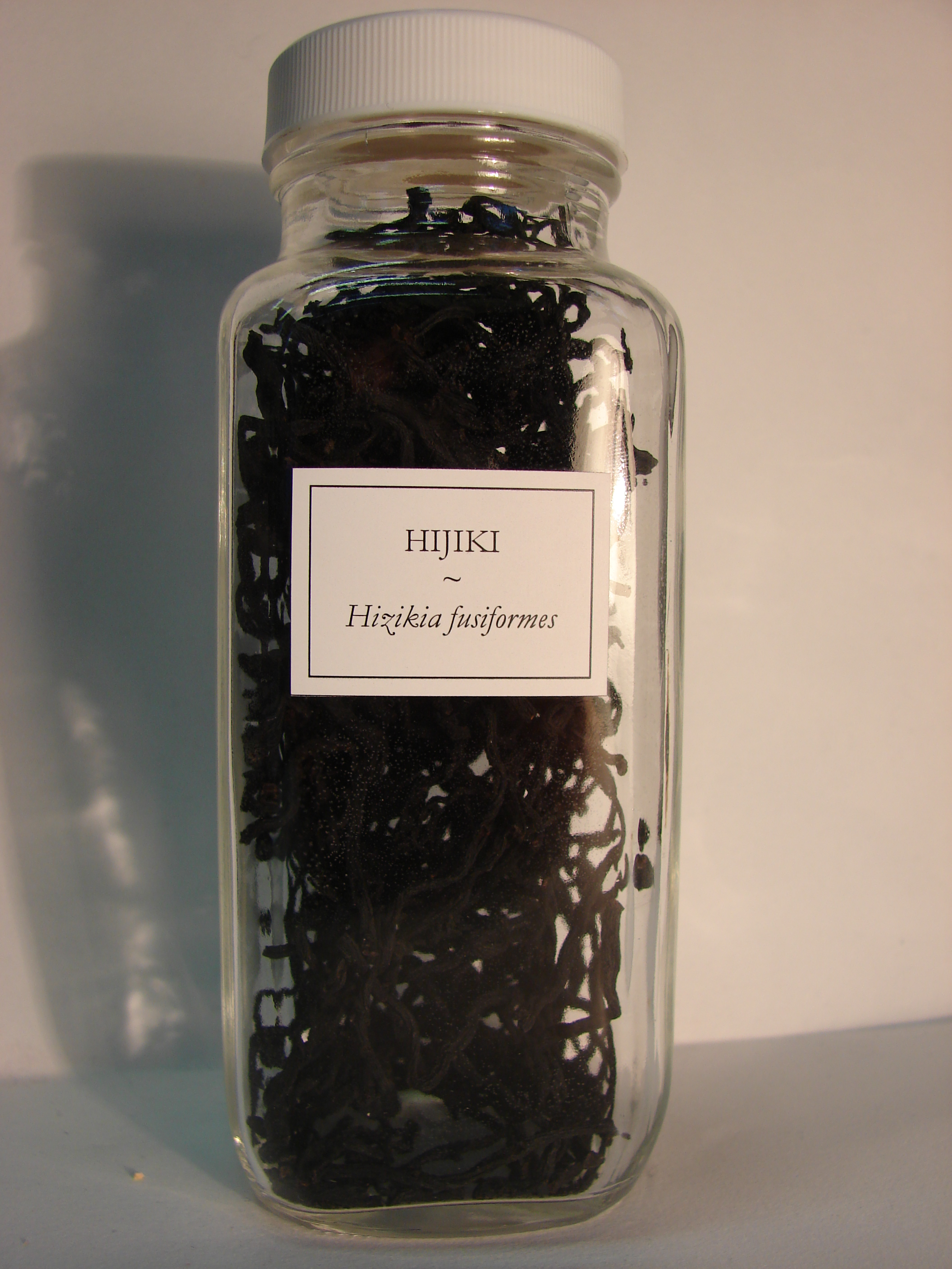 Hijiki, Hizikia fusiformes